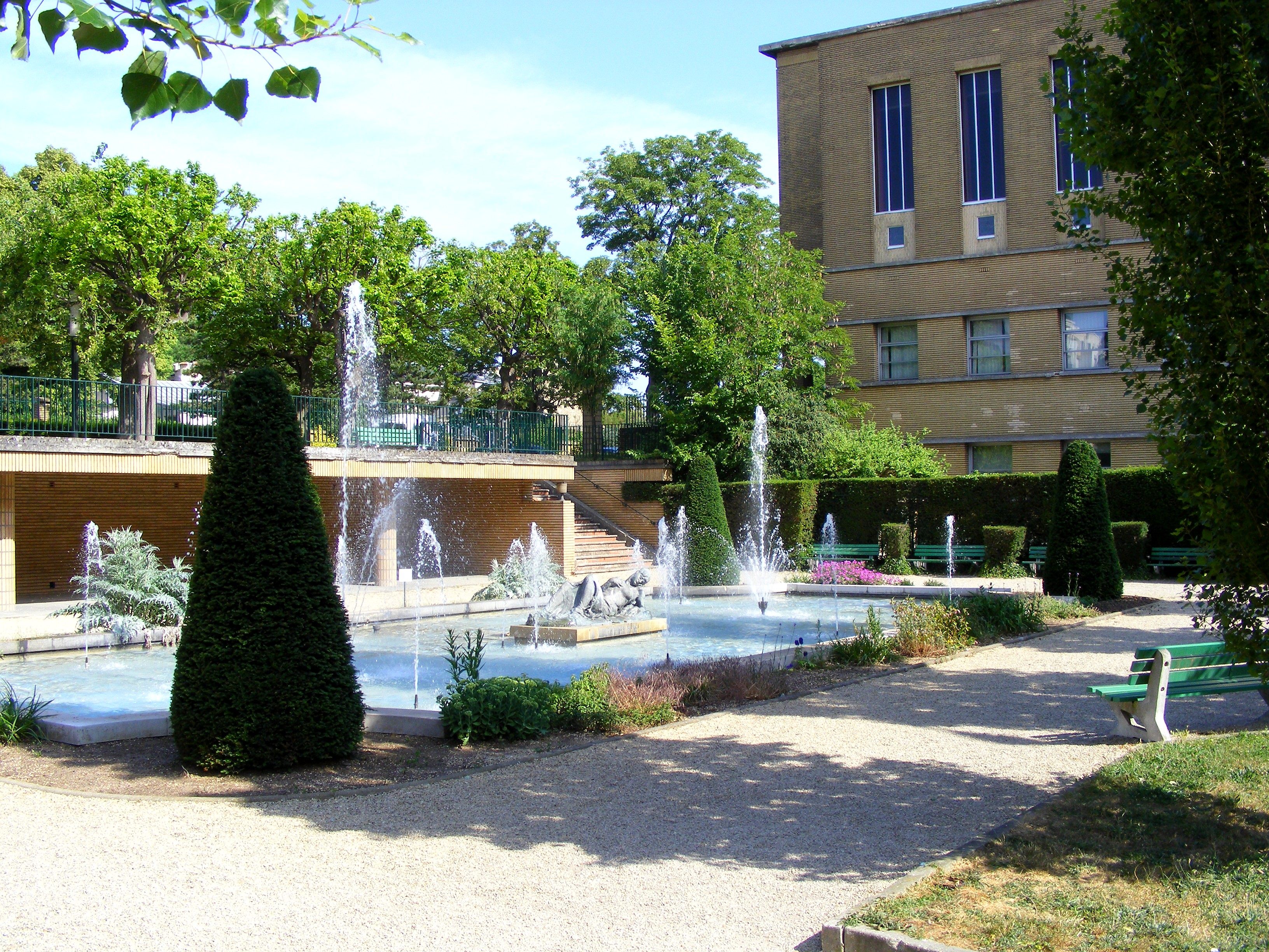 The fontain of town hall of Cachan, Val-de-Marne department, France